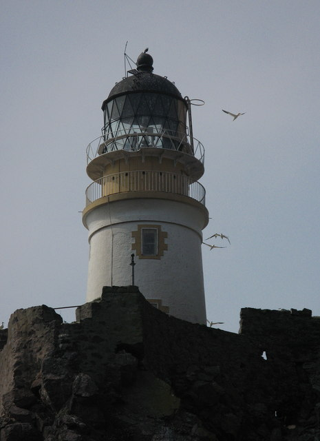 Bass Rock lighthouse, Firth of Forth, Scotland